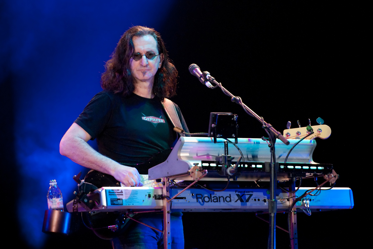 Geddy Lee playing with Rush at their 2010-2011 Time Machine tour (Ahoy, Rotterdam, The Netherlands)